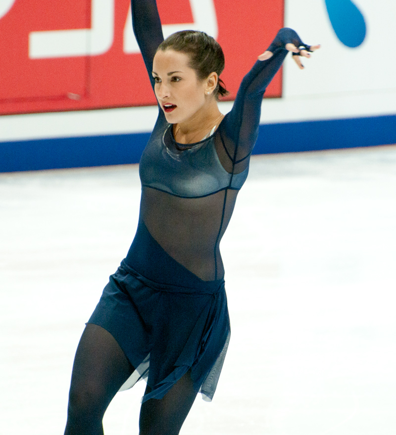 2011 Cup of Russia, short program.